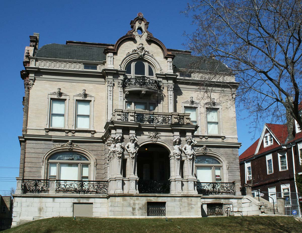 Joseph B. Kalvelage House, Milwaukee Wisconsin, National Register of Historic Places.